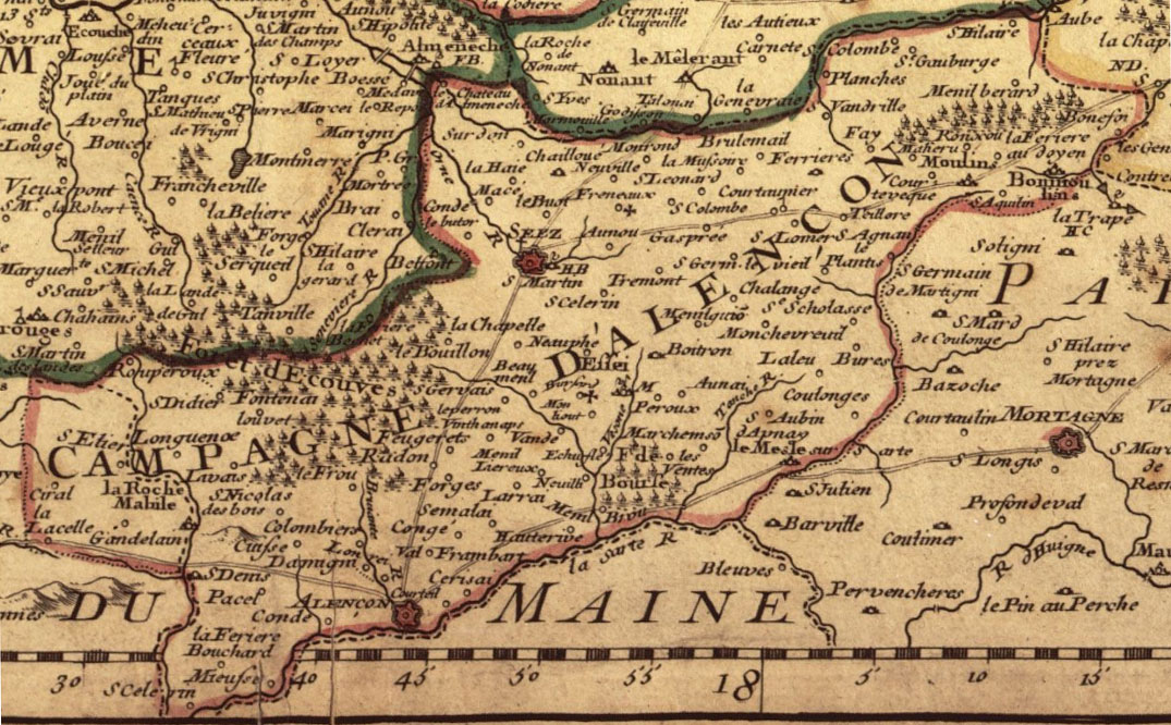 The Campagne d'Alençon (Normandy)